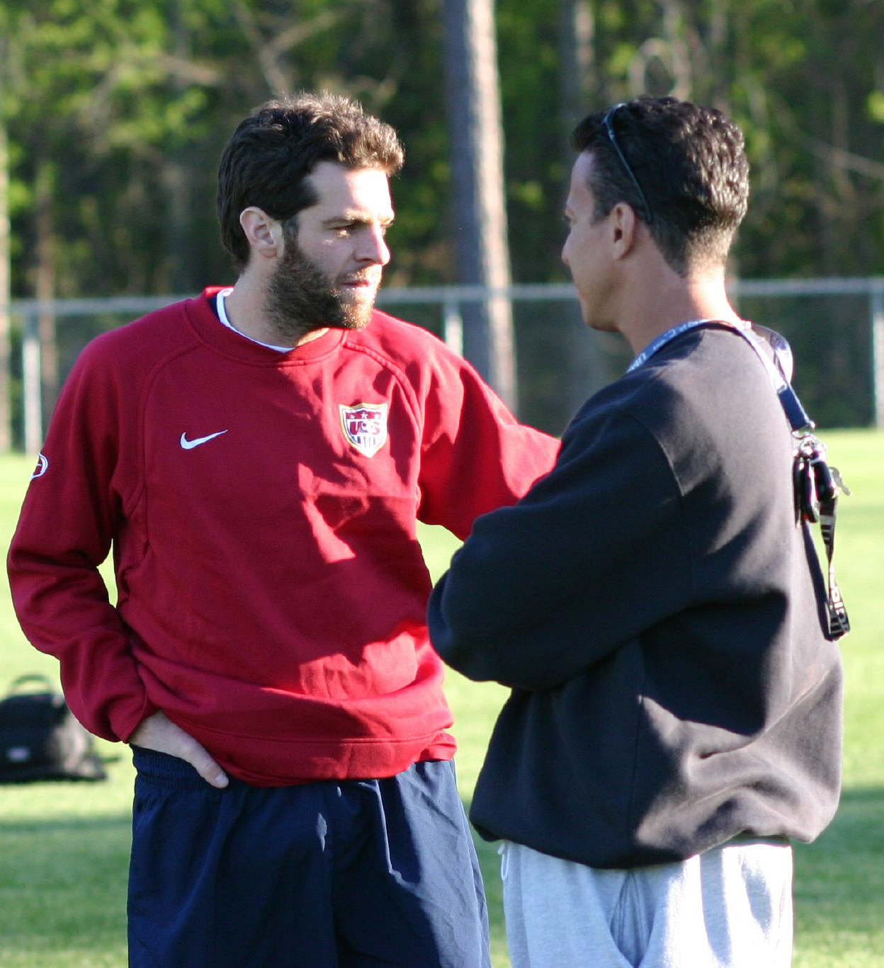 Ben Olsen practices with the US Men's National team at SAS Soccer Park in Cary, NC on April 9, 2006 ahead of their international friendly against Jamaica.